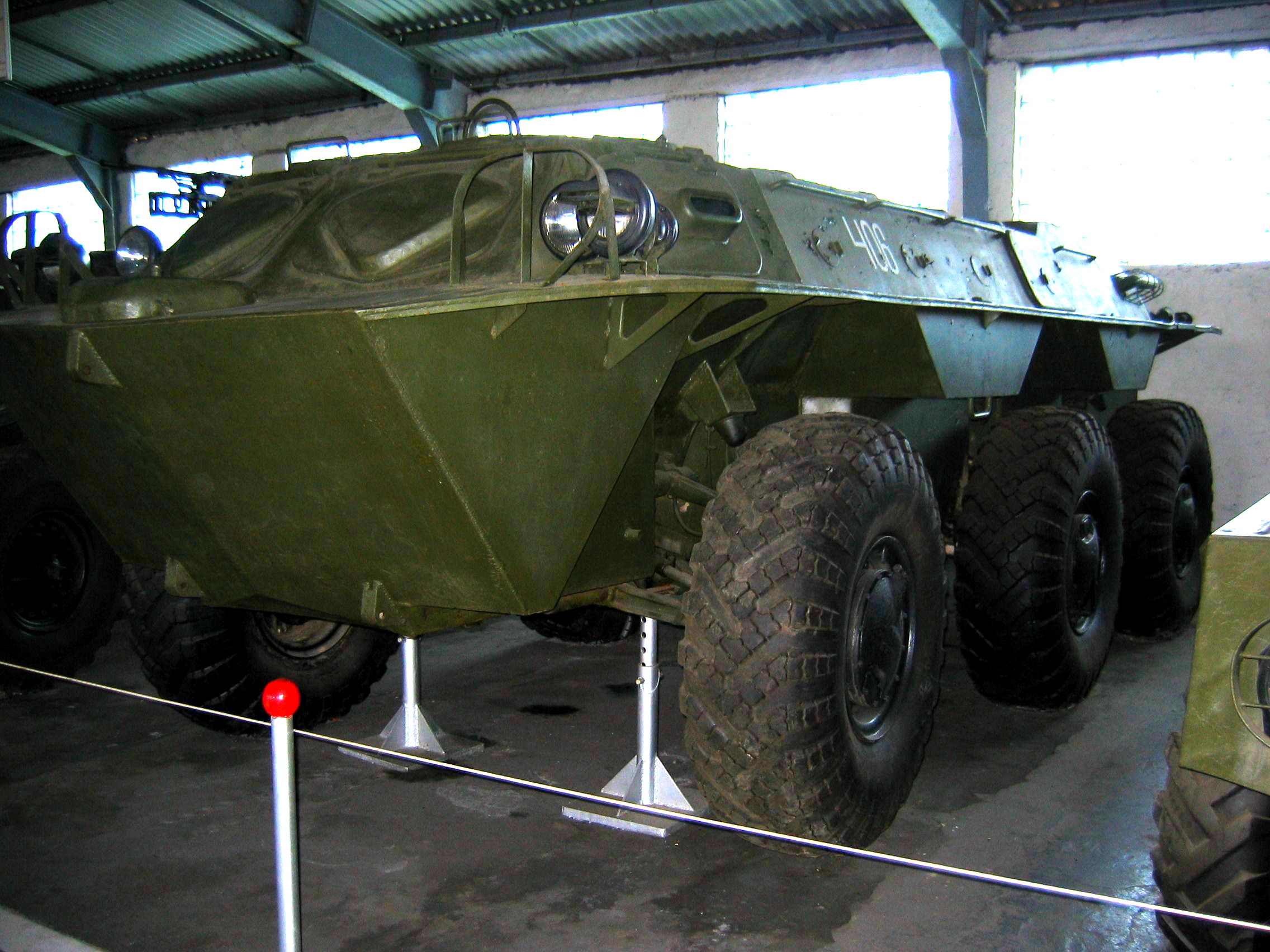 ZiL-153, soviet prototype of armoured personnel carrier. Tank museum Kubinka